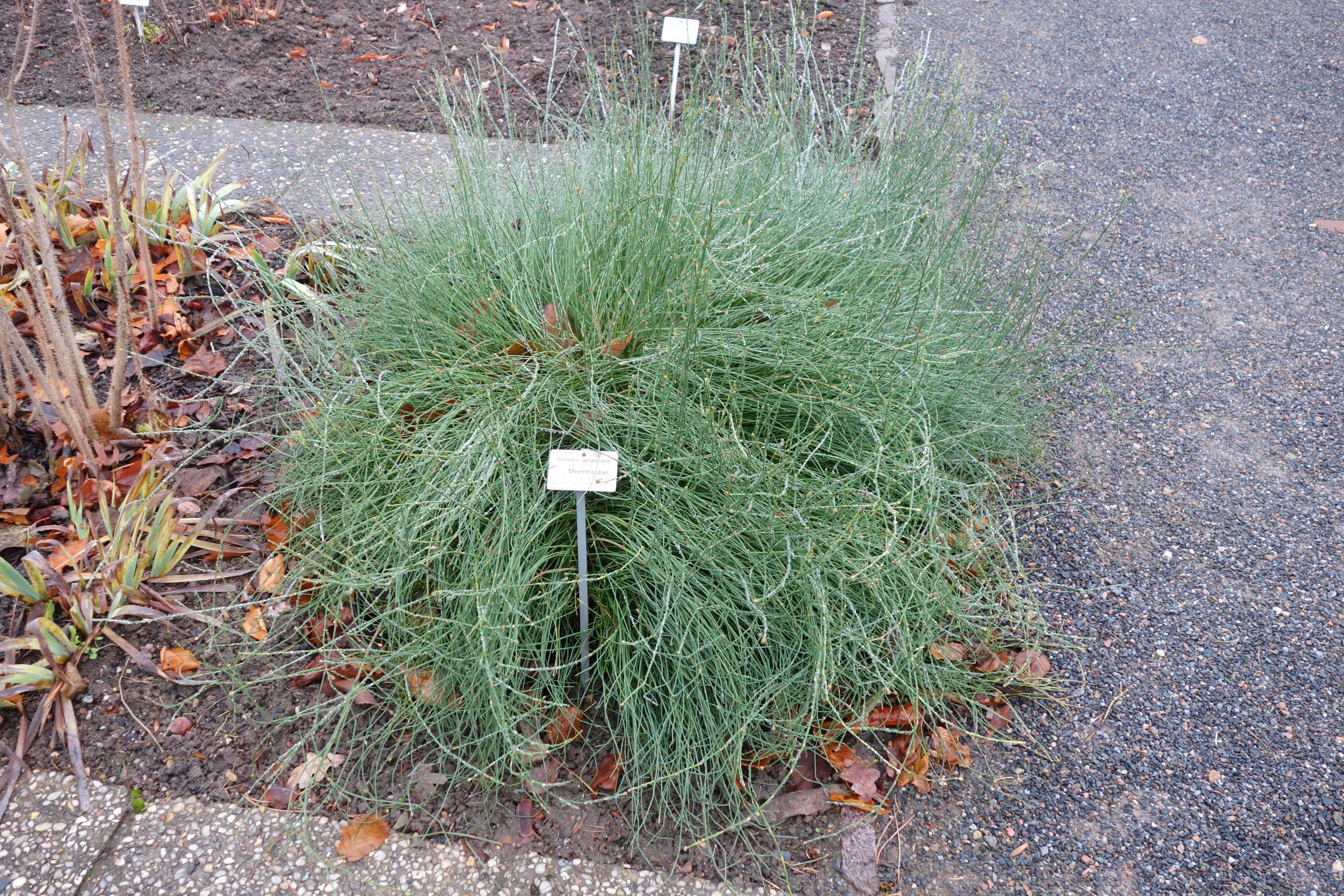 Botanical specimen in the Botanischer Garten, Dresden, Germany.